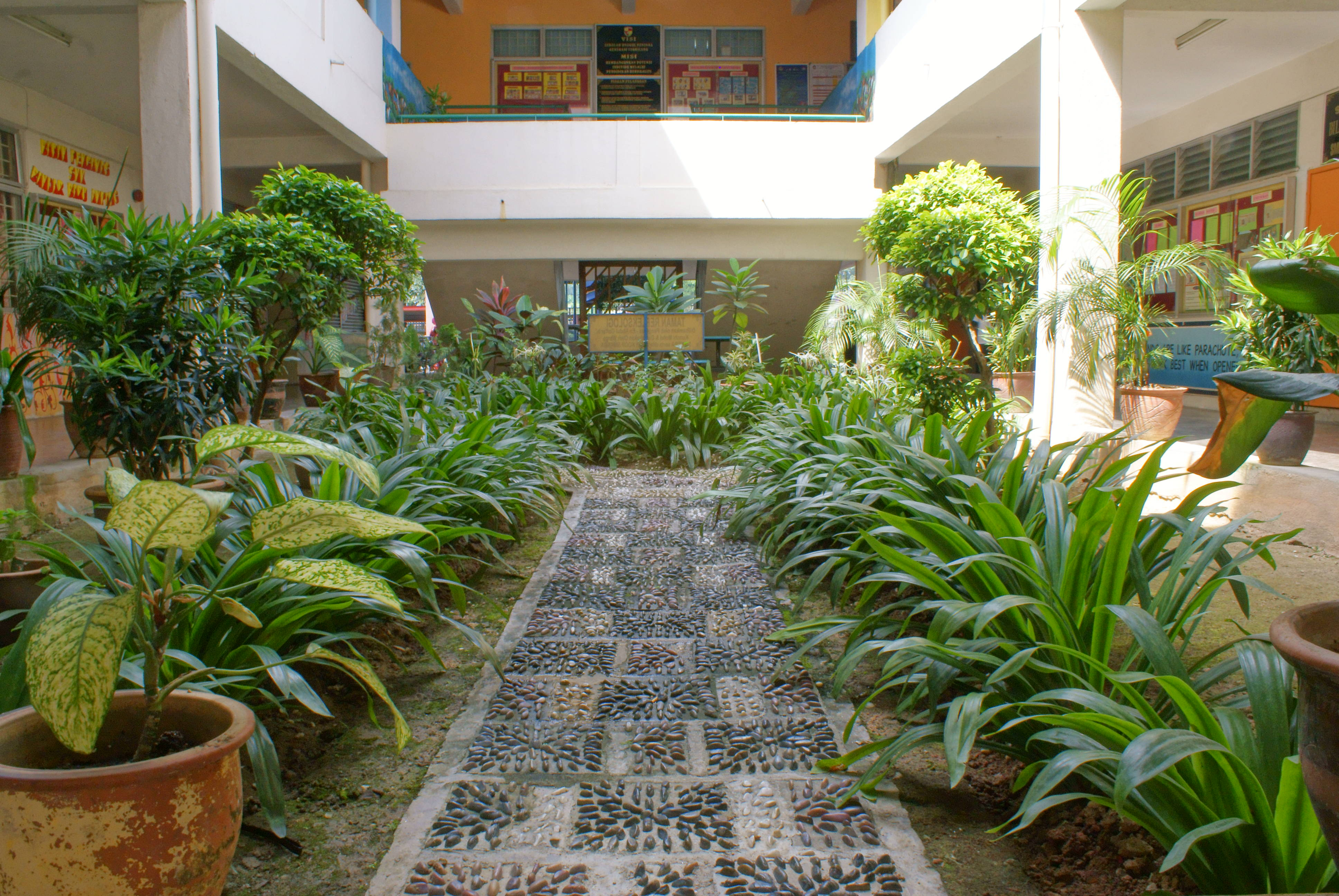 Reflexology Garden - Bandar Baru Ampang High School; Bandar Baru Ampang, Selangor, Malaysia